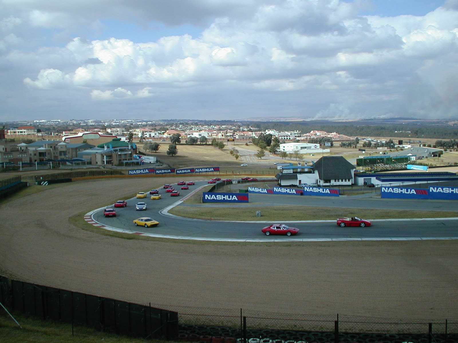 Ferrari Day at Kayalami